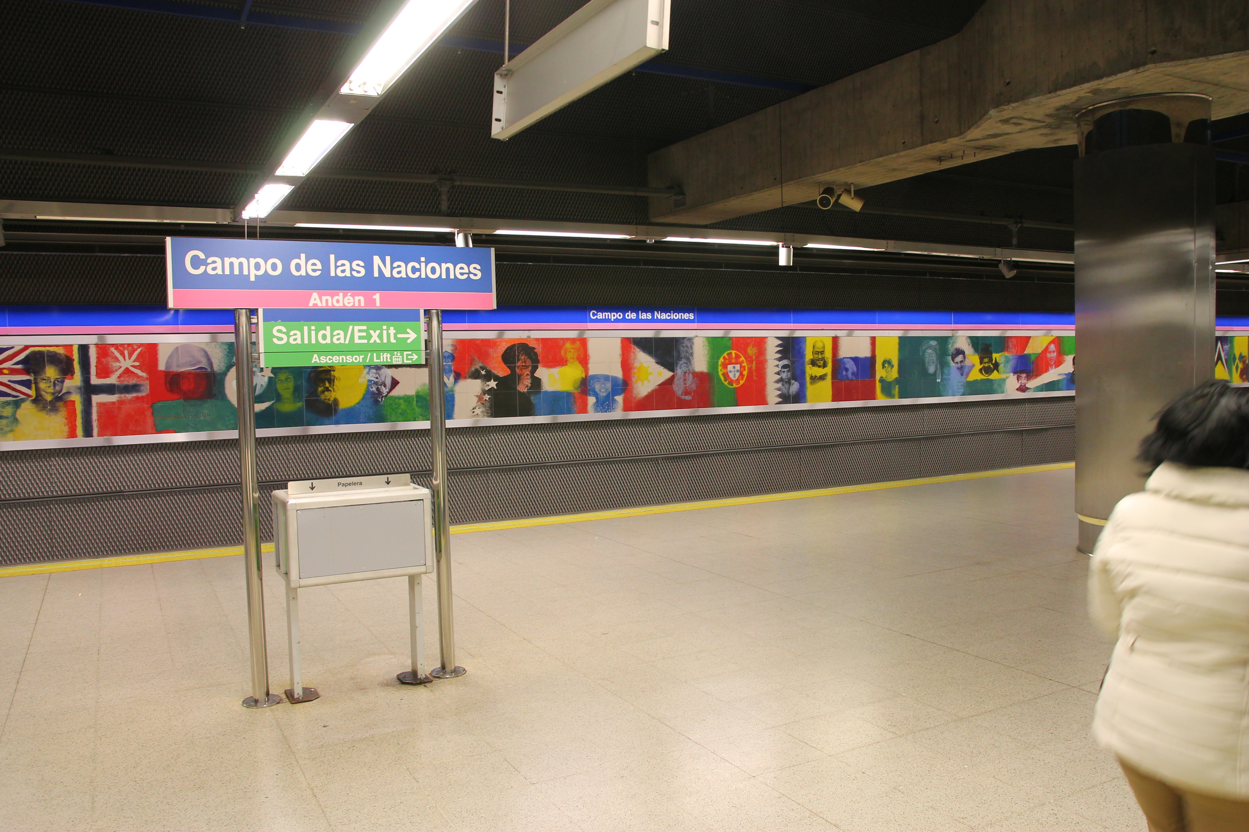 Campo de las Naciones station. Madrid Metro.